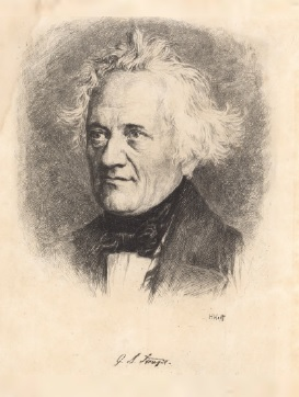 Gustav Adolf Stenzel, German historian (1792 - 1854), etching by Heinrich Wolff, German graphic designer (1875 - 1940)